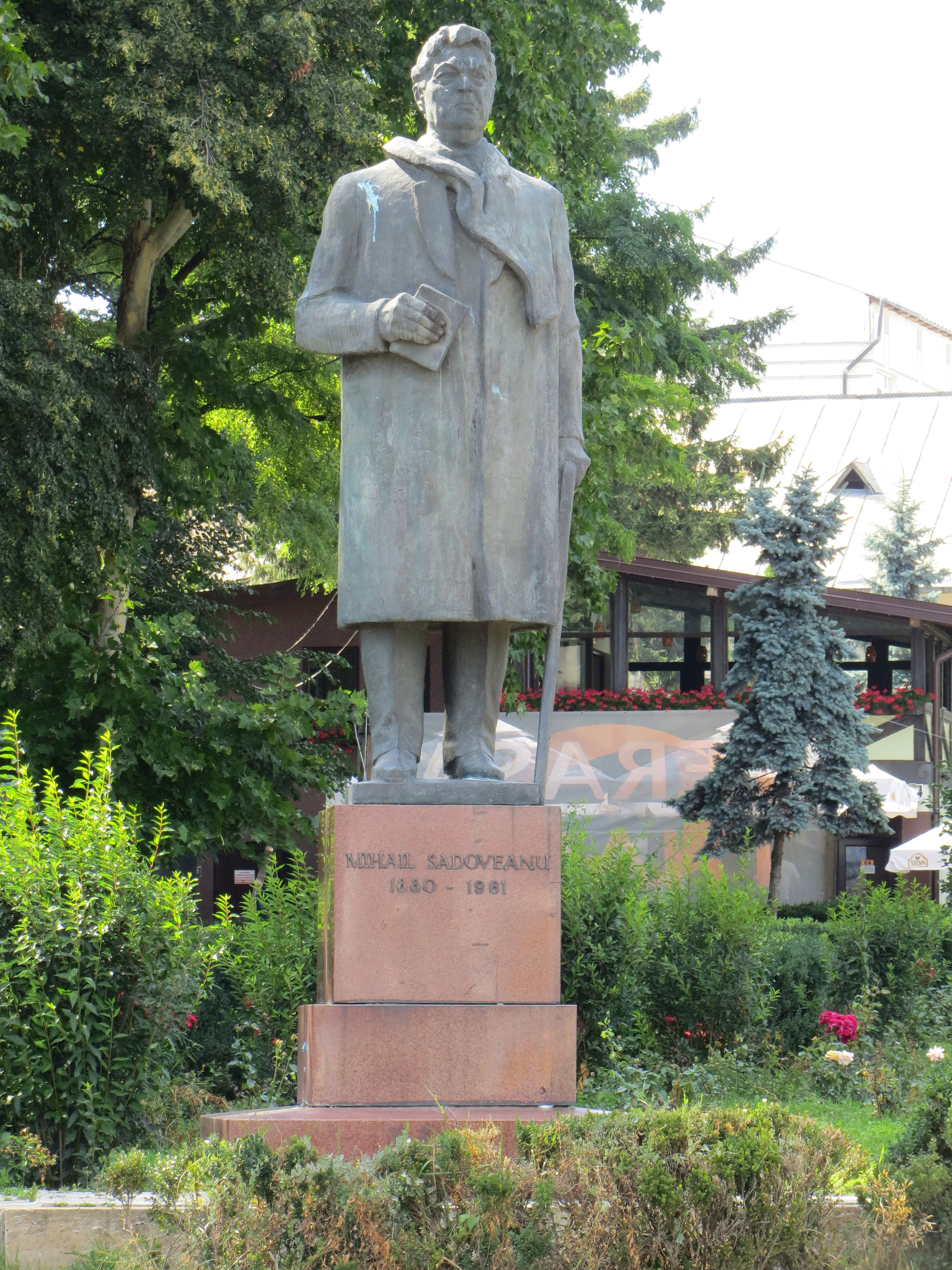 Statue of Mihail Sadoveanu, Fălticeni, Suceava County, Romania.